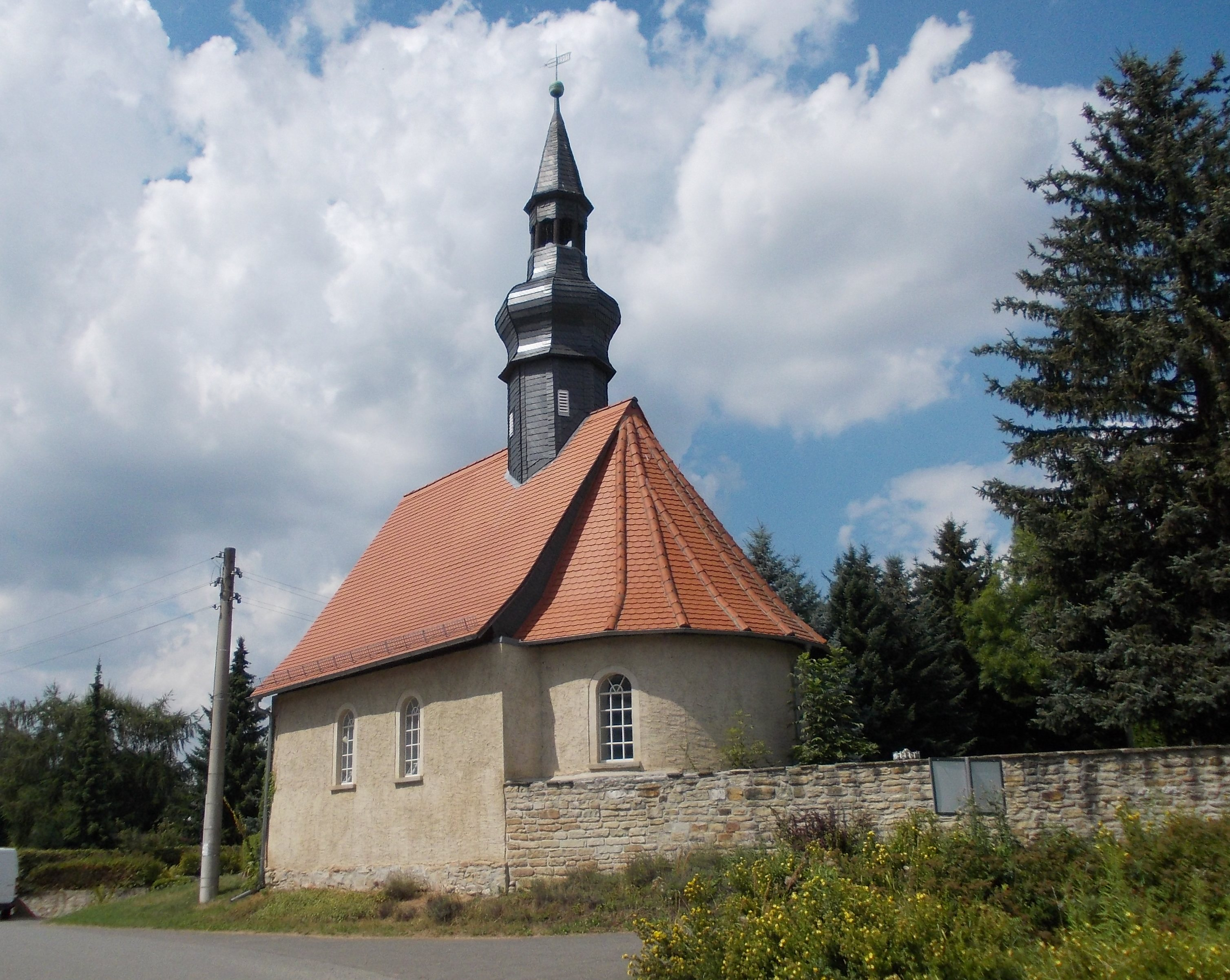 Kleinpörthen church (Schnaudertal, district: Burgenlandkreis, Saxony-Anhalt)